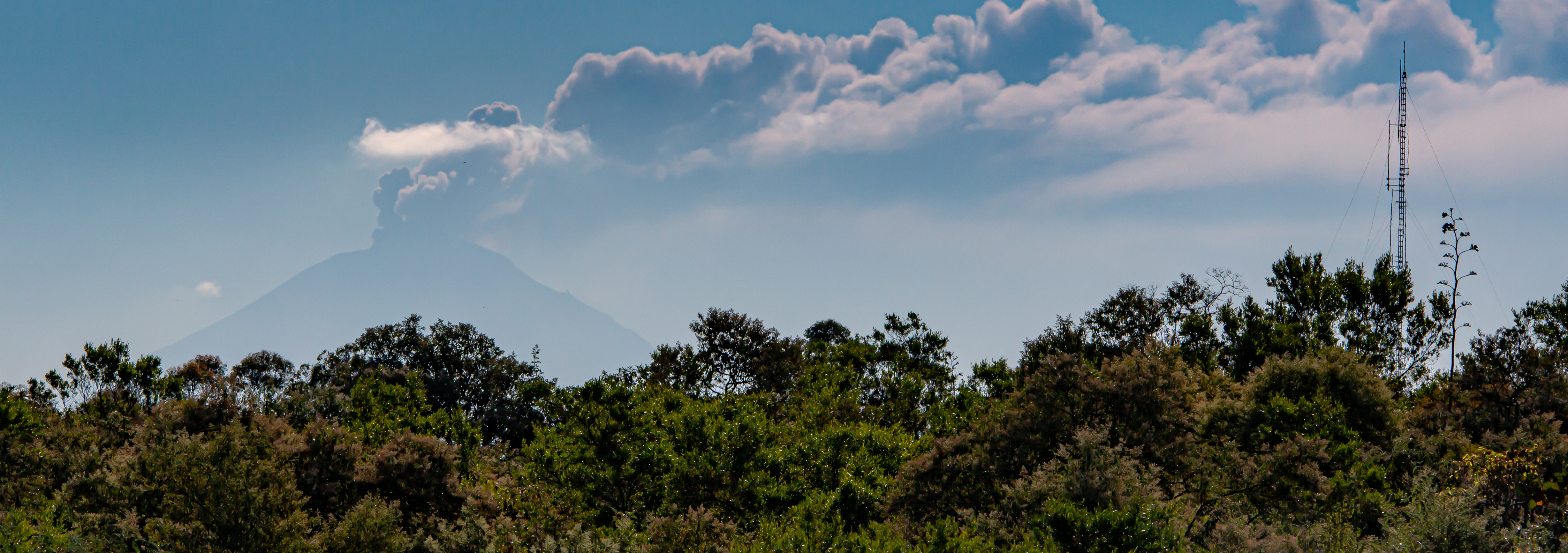 Popocatépetl during eruption in 2017, seen from UNAM in Mexico city (with 500mm tele)